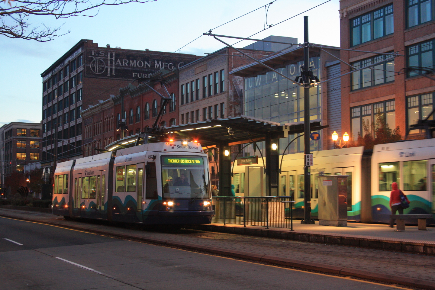 Tacoma Link car 1002 northbound on the left waits at the Union Station/S 19th stop while car 1001 arrives on the right on 2 November 2010. In the background center and right are some of University of Washington Tacoma’s campus buildings.